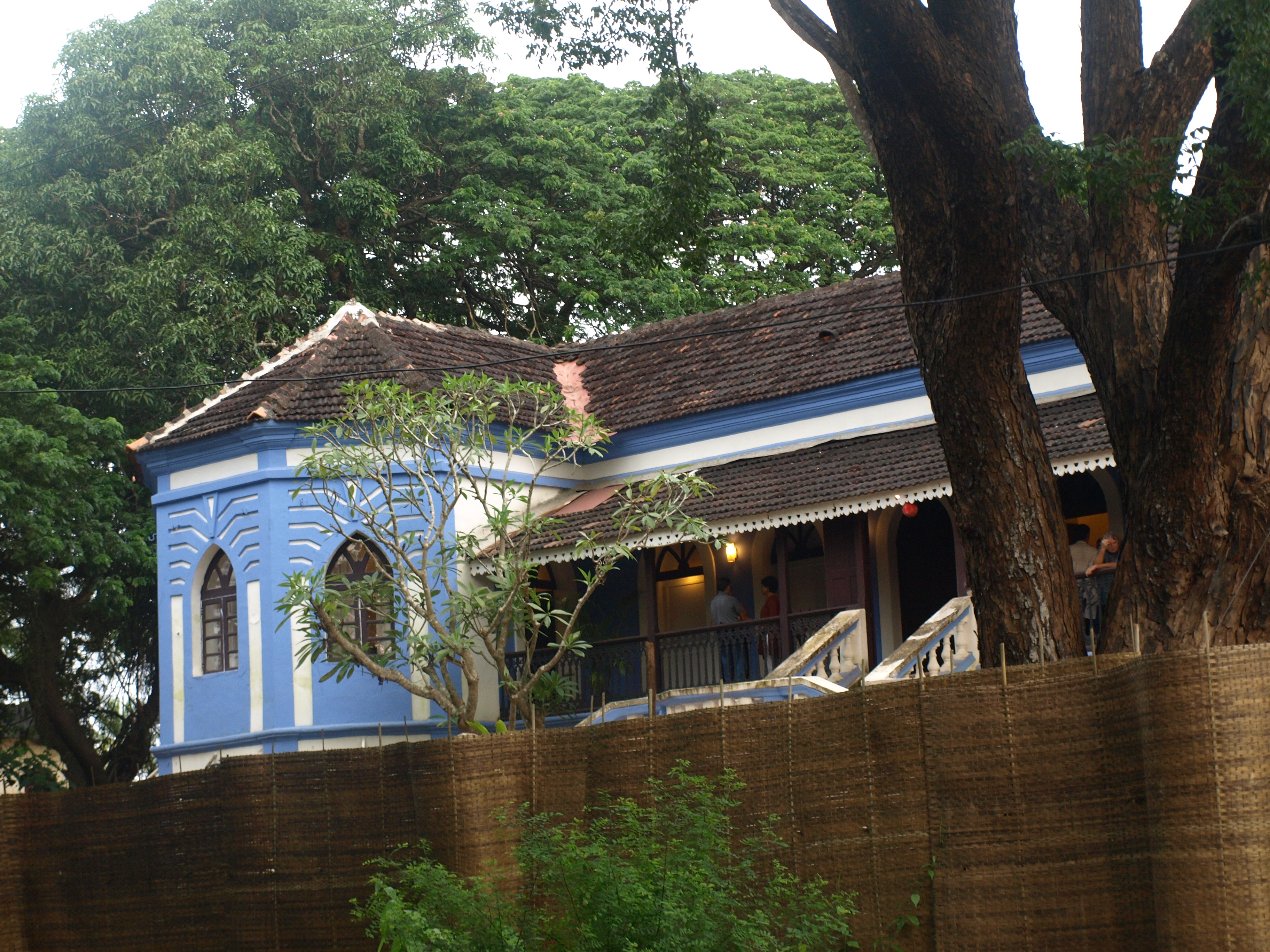 Sunaparanta, Goa Centre for the Arts. Photo by Frederick Noronha.